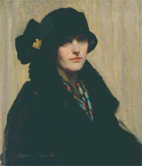 Selfportrait